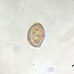 Galerina spore displaying a plage.